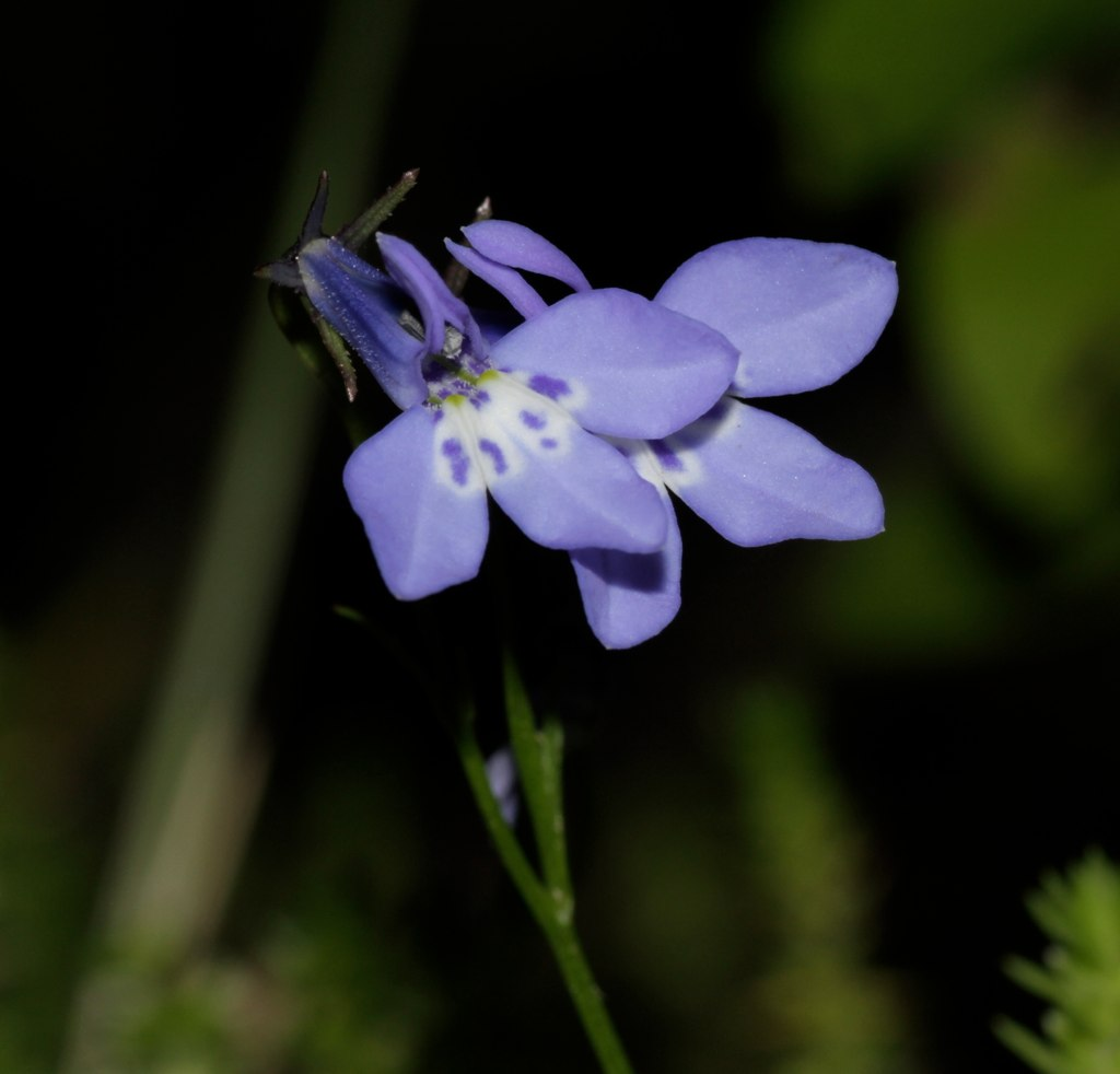 South Africa. Royal Natal NP. Northern Drakensberg.